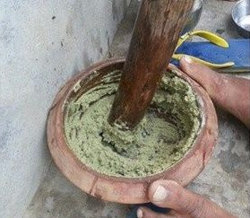 Grinding cannabis using a mortar and pestle